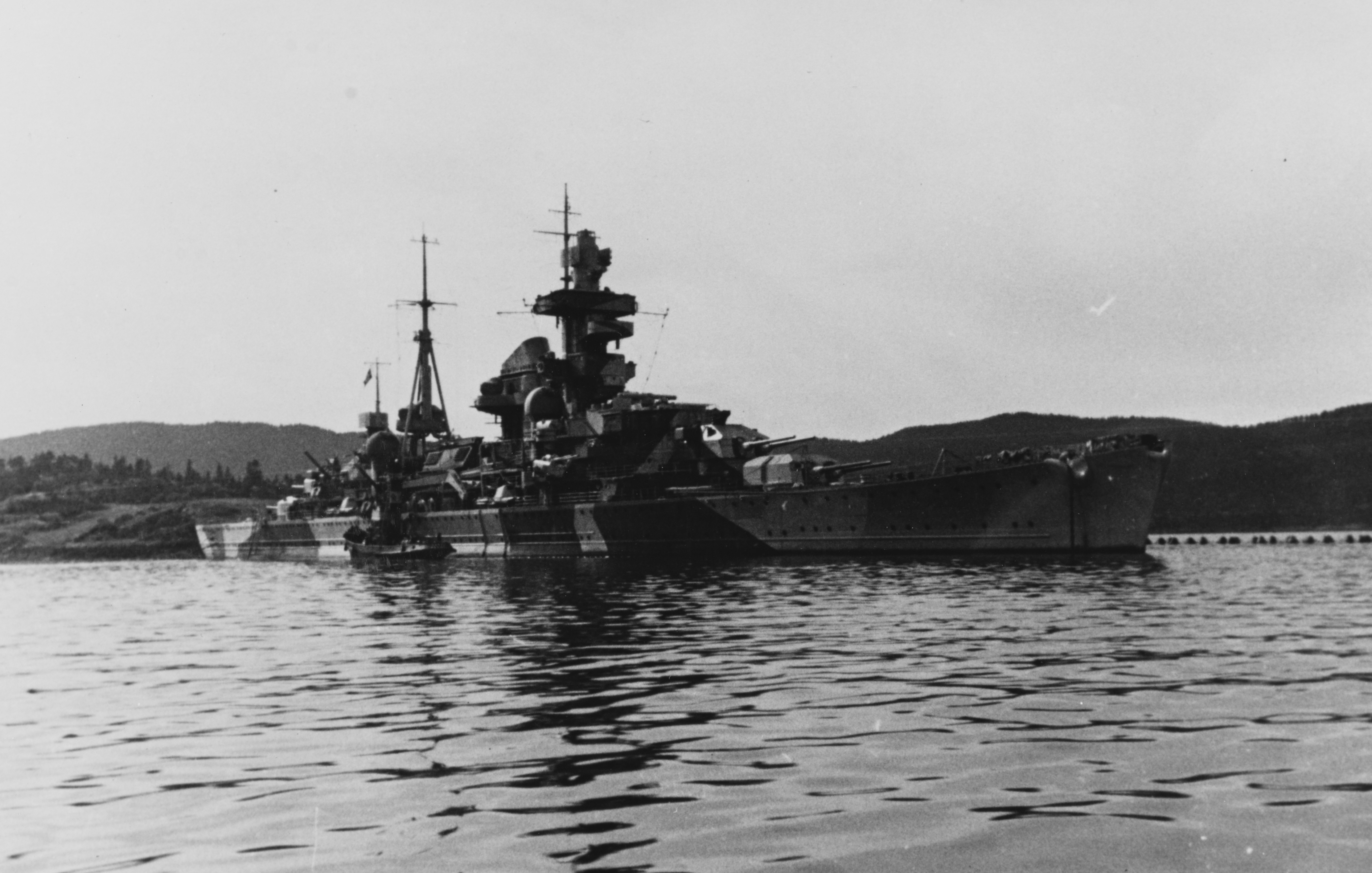 (German Heavy Cruiser, 1939-1945) In Norwegian waters, during World War II. U.S. Naval History and Heritage Command Photograph.